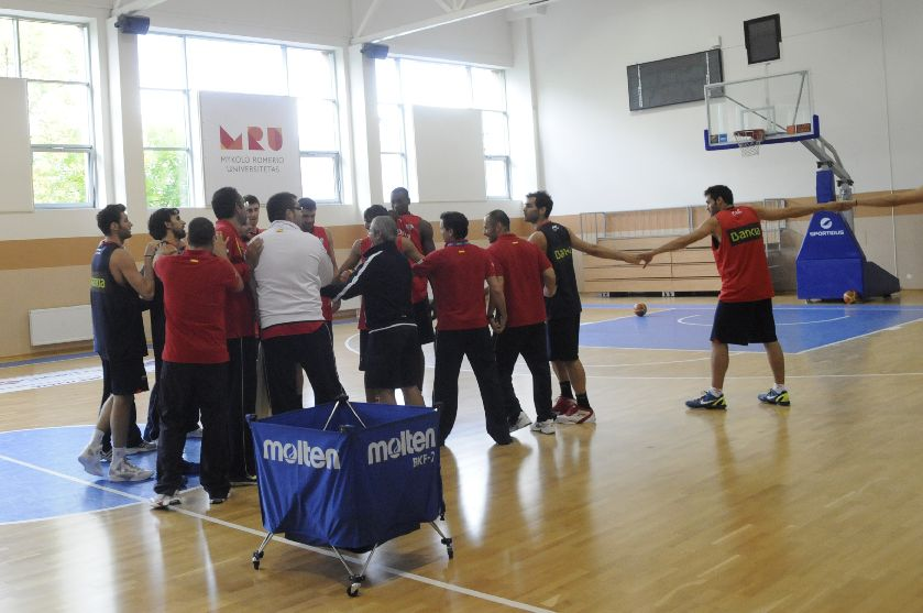 Spain national basketball team at MRU's sport hall